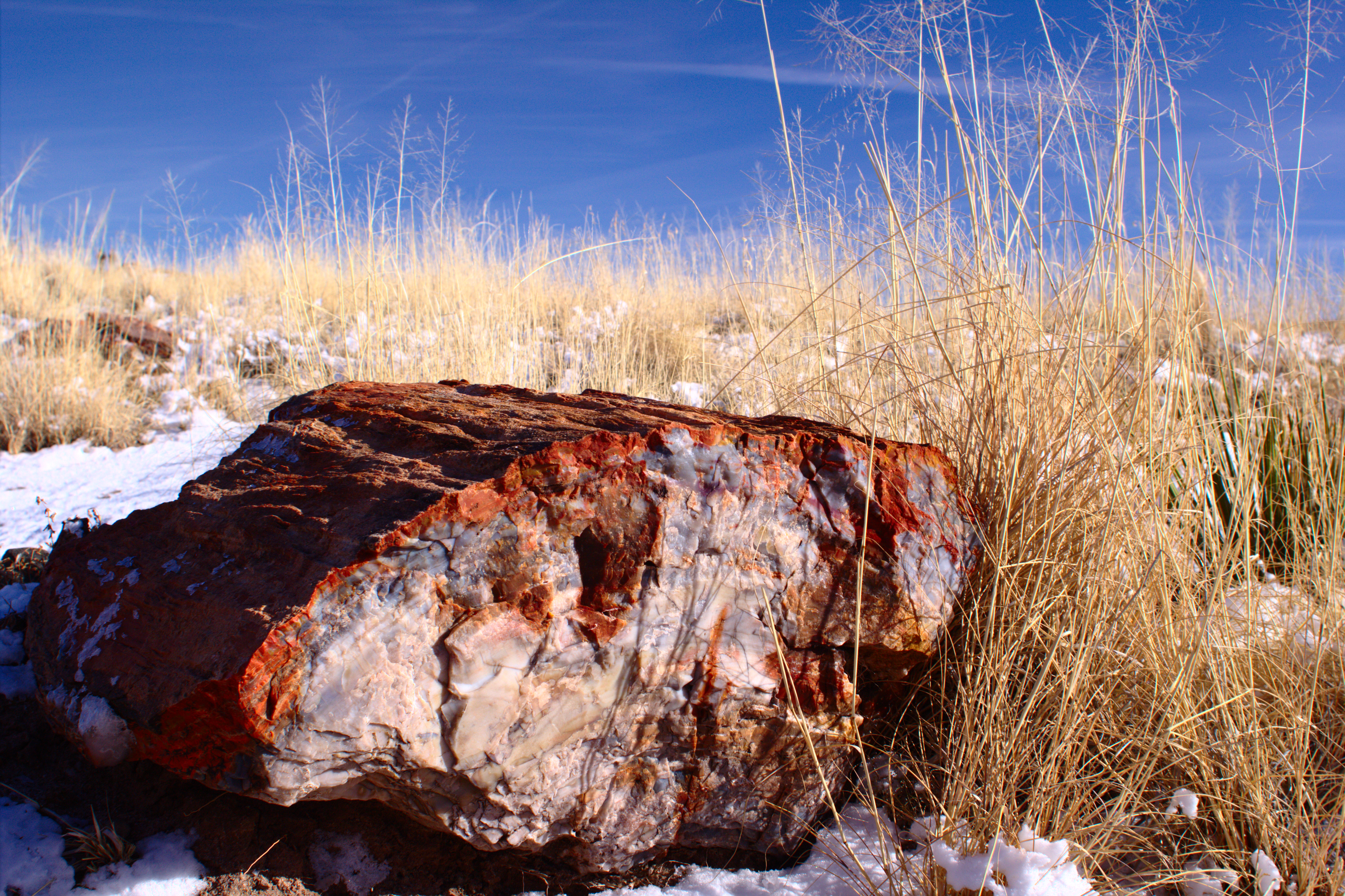 A log of wood that has been transformed into a colourful mineral.